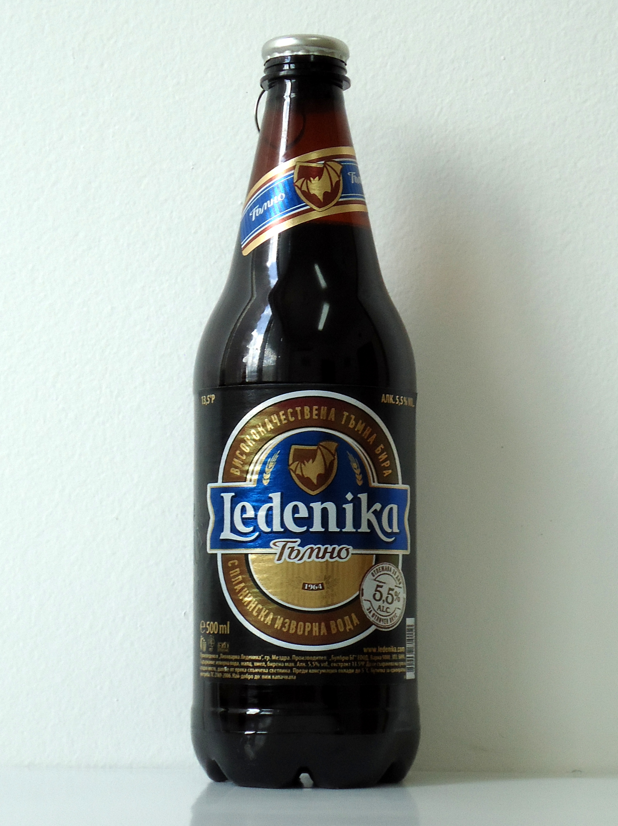 Ledenika Tamno beer